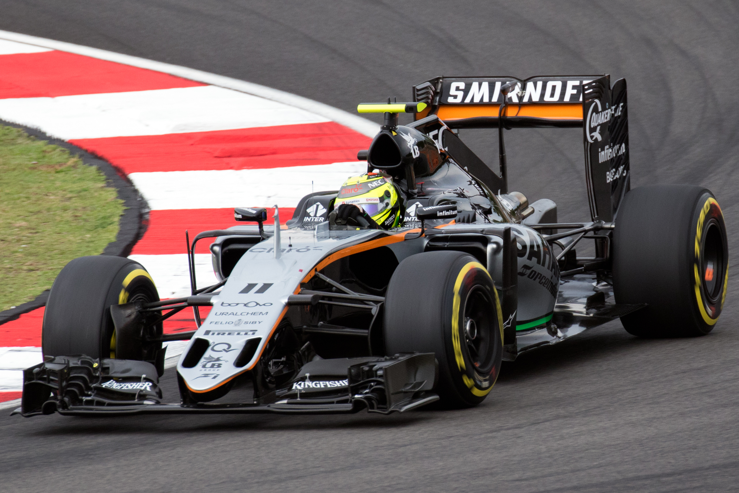 Formula One 2016 Rd.16 Malaysian GP: Sergio Pérez (Force India)